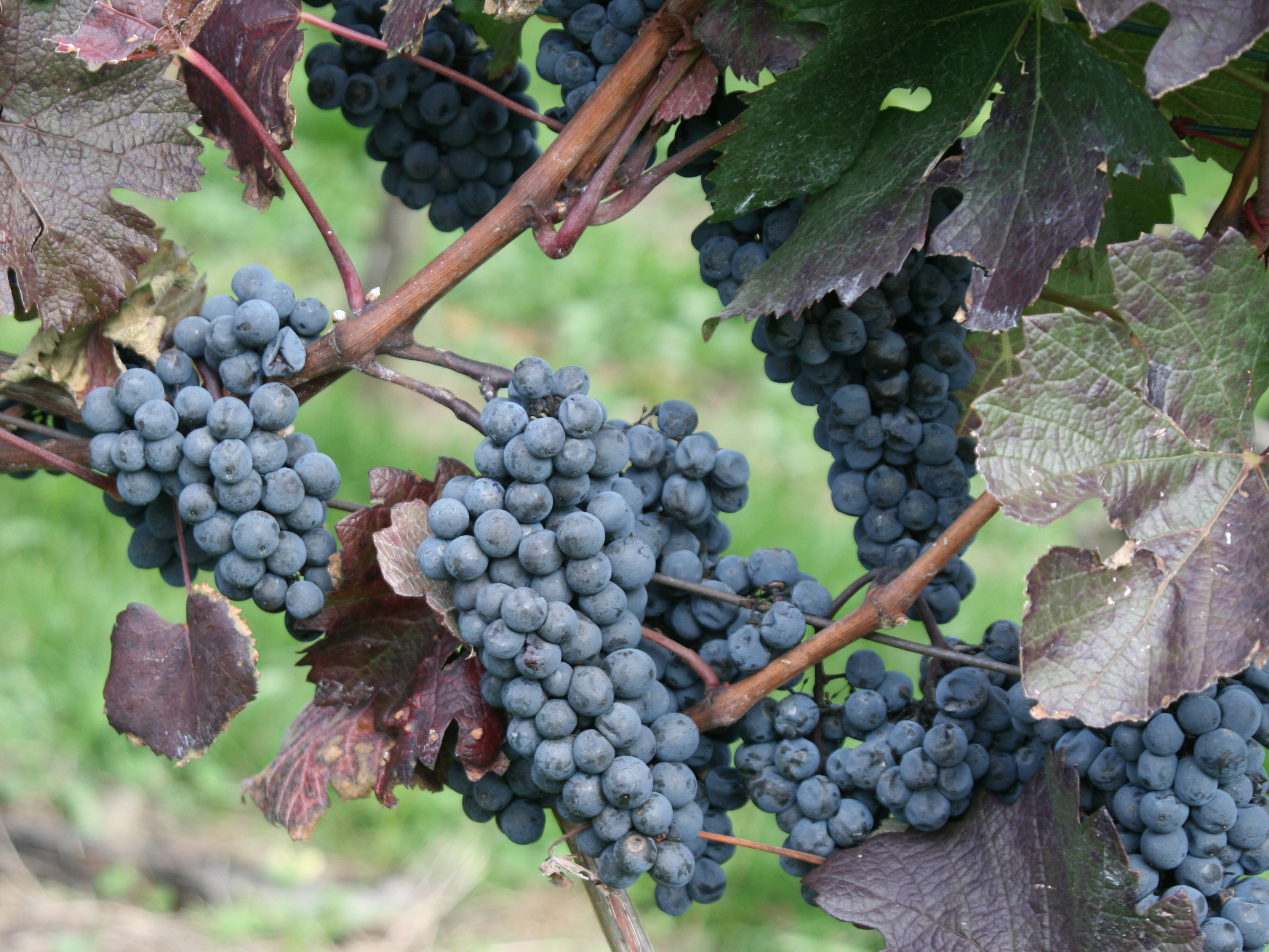 Grapes and leaves of the grape variety Deckrot, photographed at the viticulture trail on the Schemelsberg hill in Weinsberg